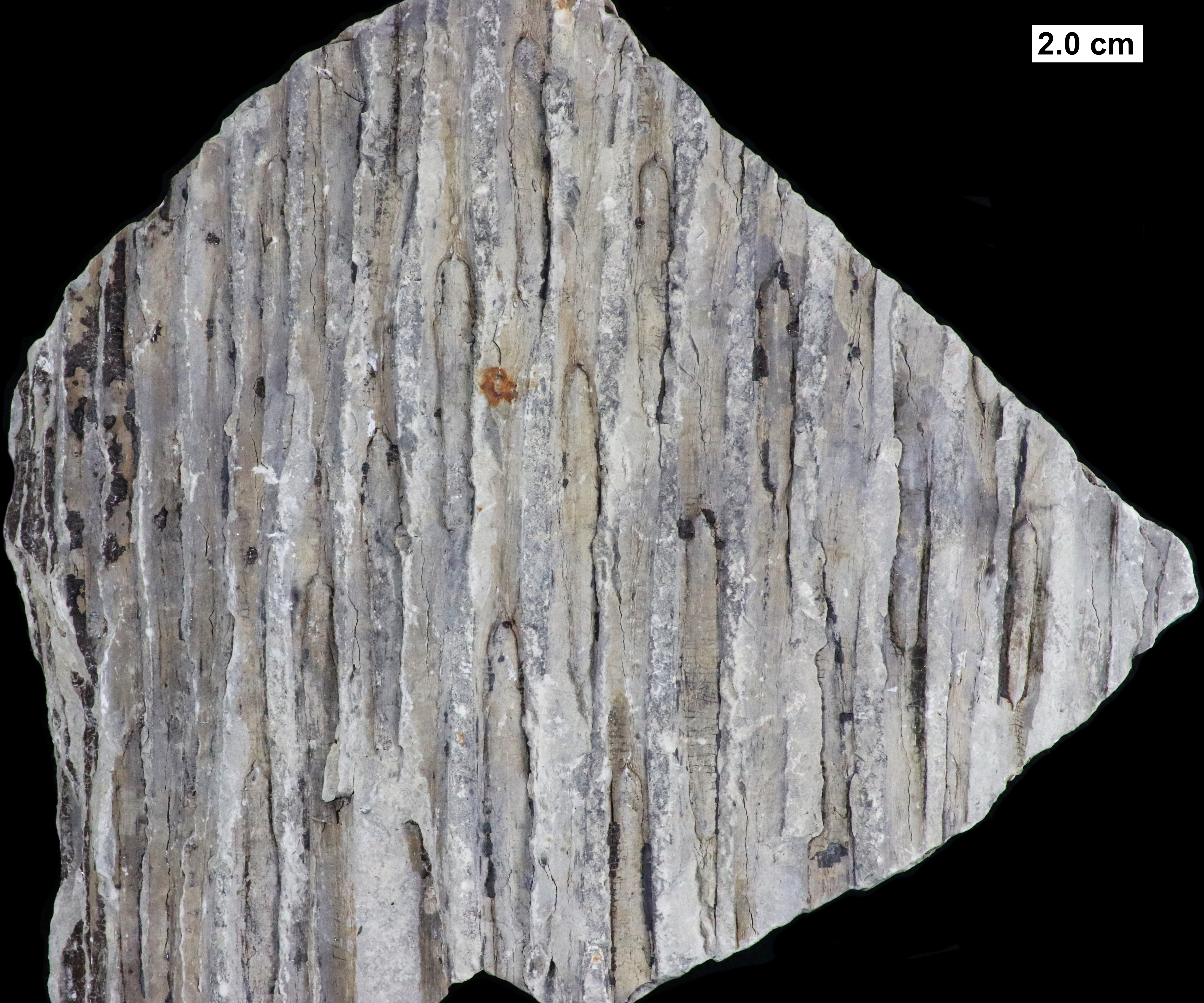 Lycopod bark showing leaf scars; Middle Devonian; Milwaukee Formation; Berthelet Member; Milwaukee County, Wisconsin; UWM-GM 51372; photograph originally published in K.C. Gass, J. Kluessendorf, D.G. Mikulic, and C.E. Brett, 2019. Fossils of the Milwaukee Formation: A Diverse Middle Devonian Biota from Wisconsin, USA. Siri Scientific Press, Manchester, UK.